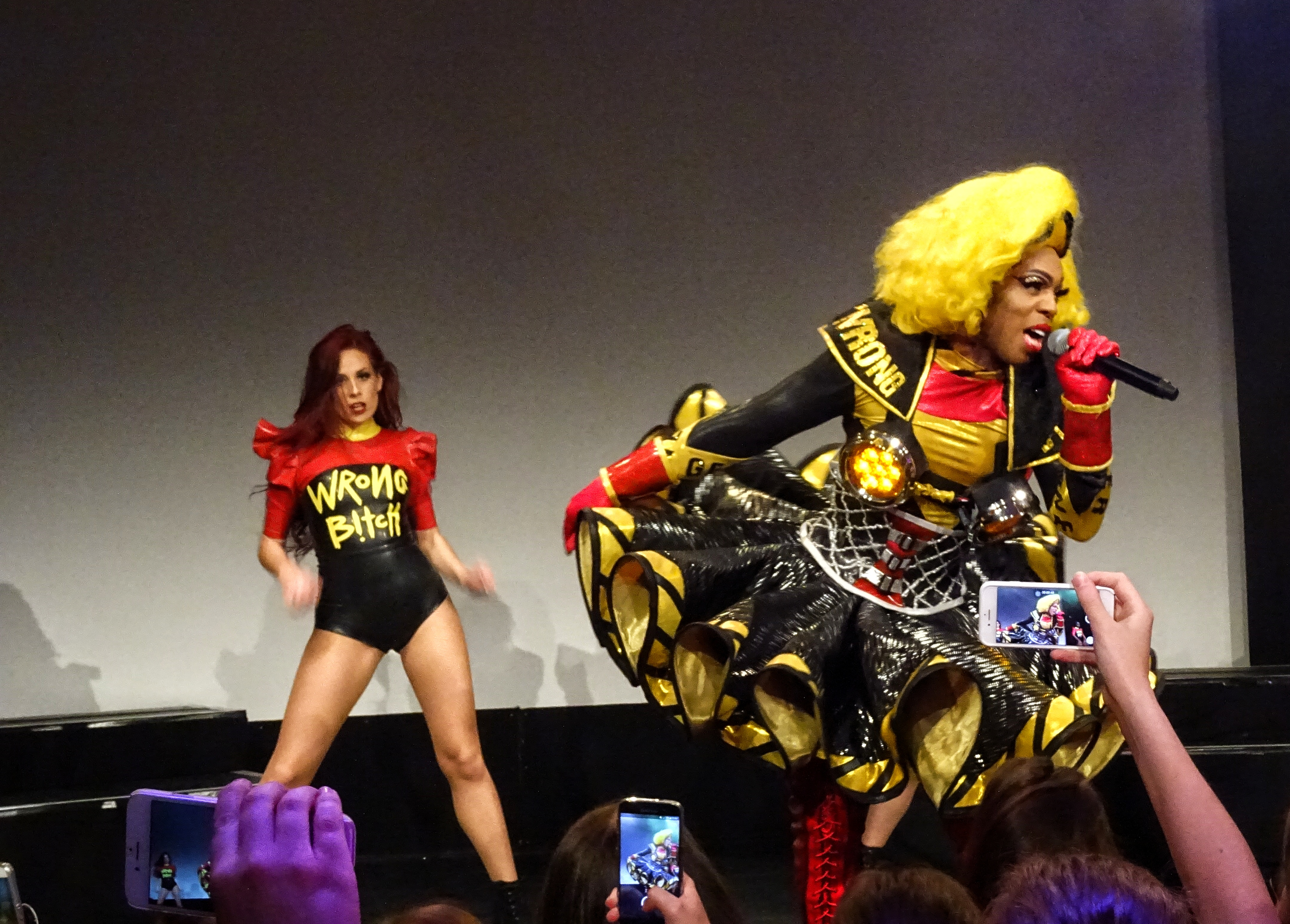 Todrick Hall's #StraightOuttaOz Tour, Gloria, Cologne on May 26 2017